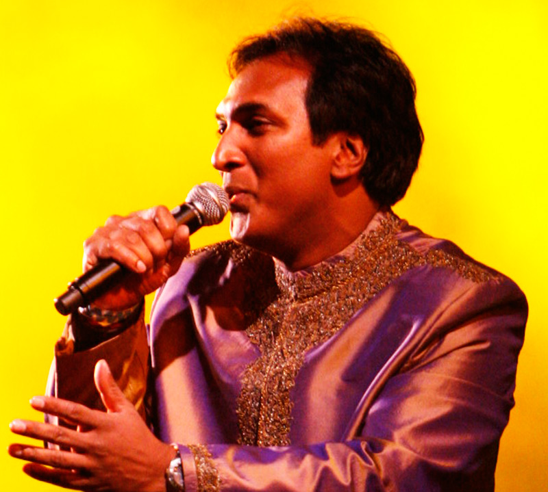 Dhroeh Nankoe at concert in Amsterdam 2012